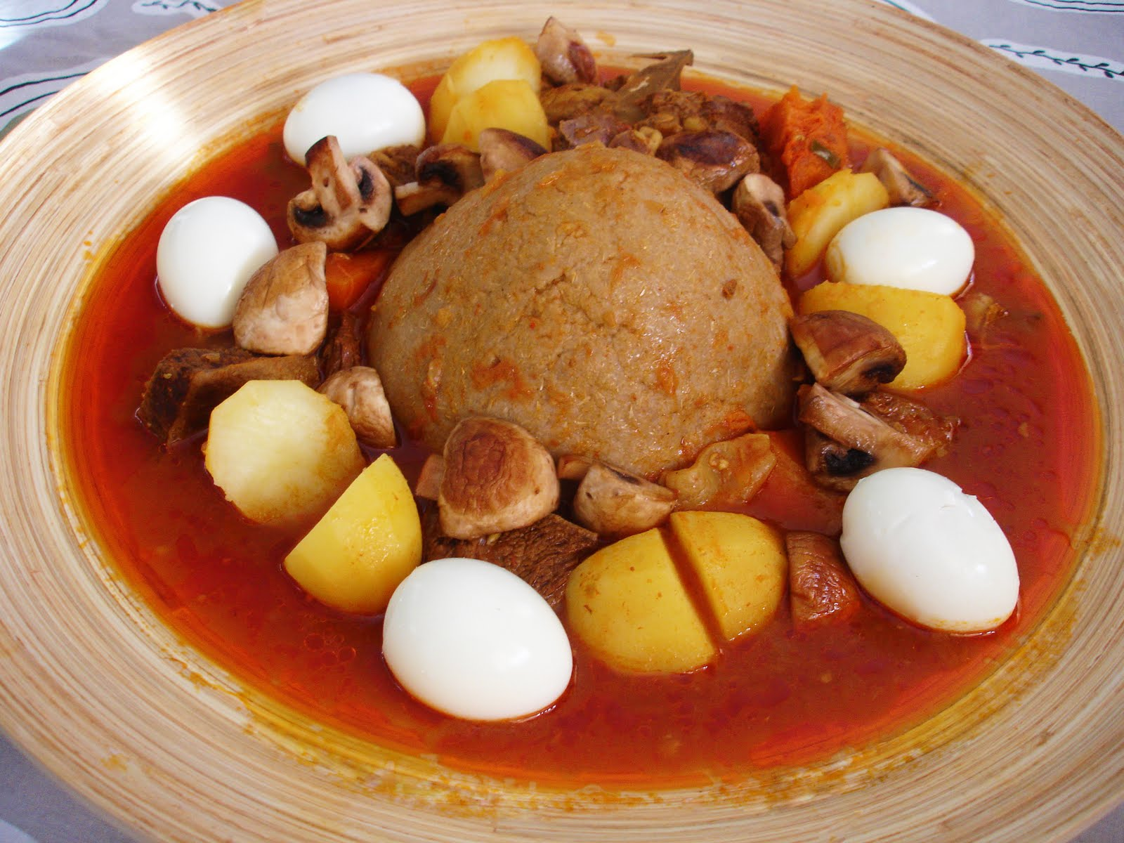 bazin